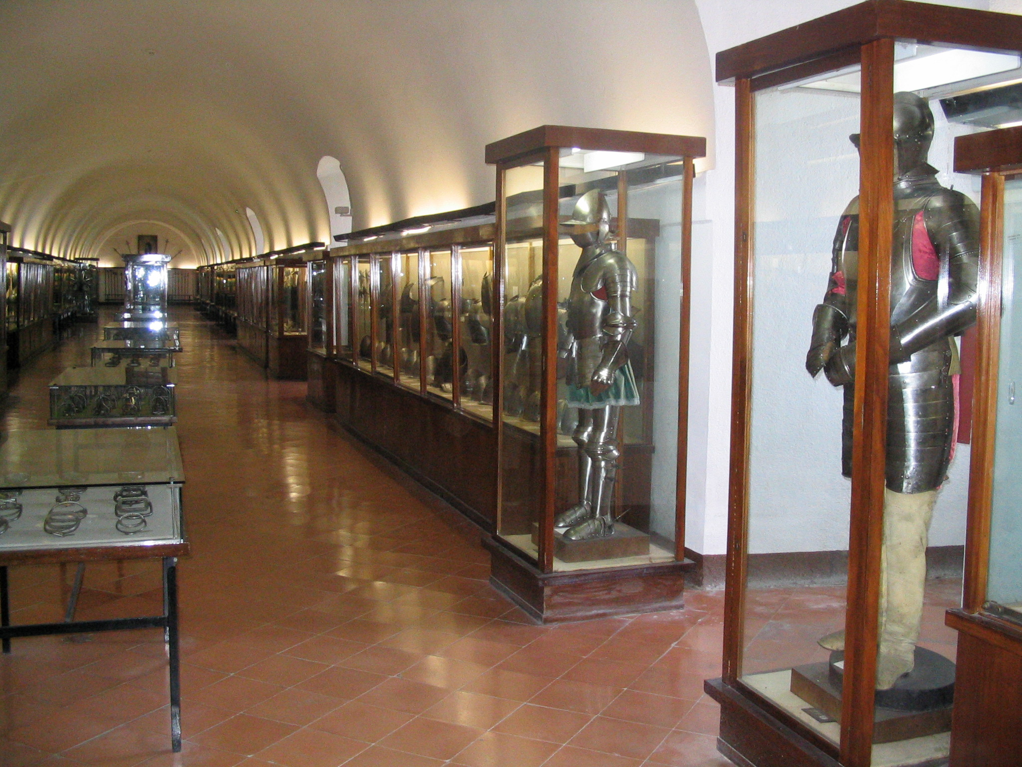 Armours at the former military museum at the Montjuic castle, in Barcelona.